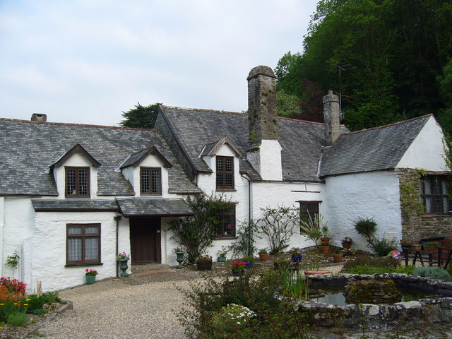 Chambercombe Manor, Ilfracombe Thought to date from the 12th Century, Chambercombe Manor was visited by Lady Jane Grey.